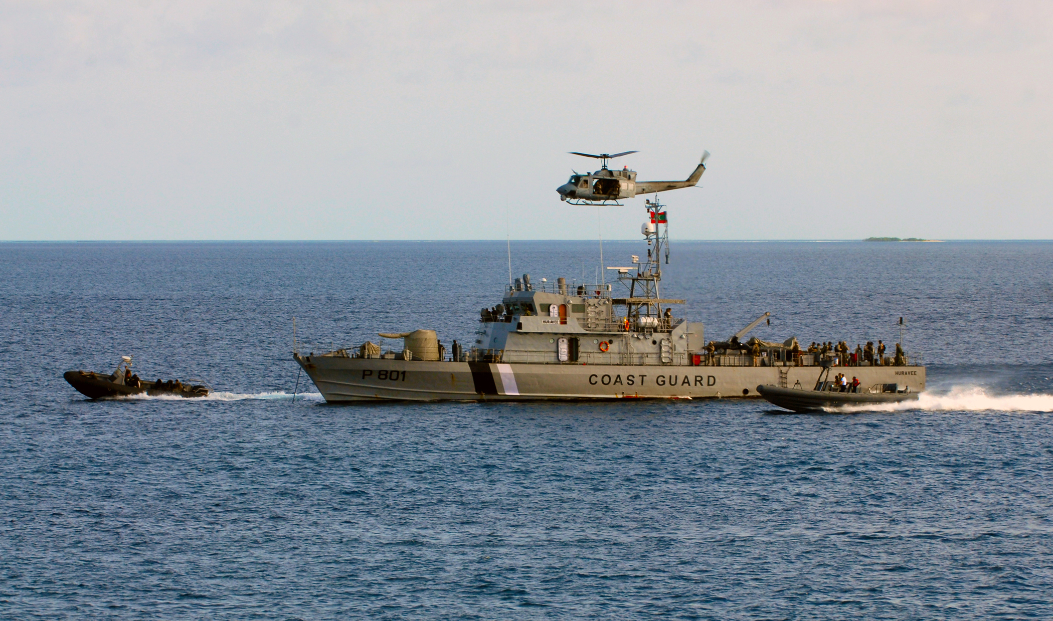 PACIFIC OCEAN (July 14, 2010) A Maldivian coast guard ship Hurawee (801) (formerly Indian Navy Ship Tillanchang T62) serves as a non-compliant vessel during an exercise for a visit, board, search and seizure team assigned to the amphibious transport dock ship USS Dubuque (LPD 8). Dubuque is participating in Operation Bungalow Breeze with the Maldives National Defense Forces. (U.S. Navy photo by Mass Communication Specialist 1st Class David McKee/Released)